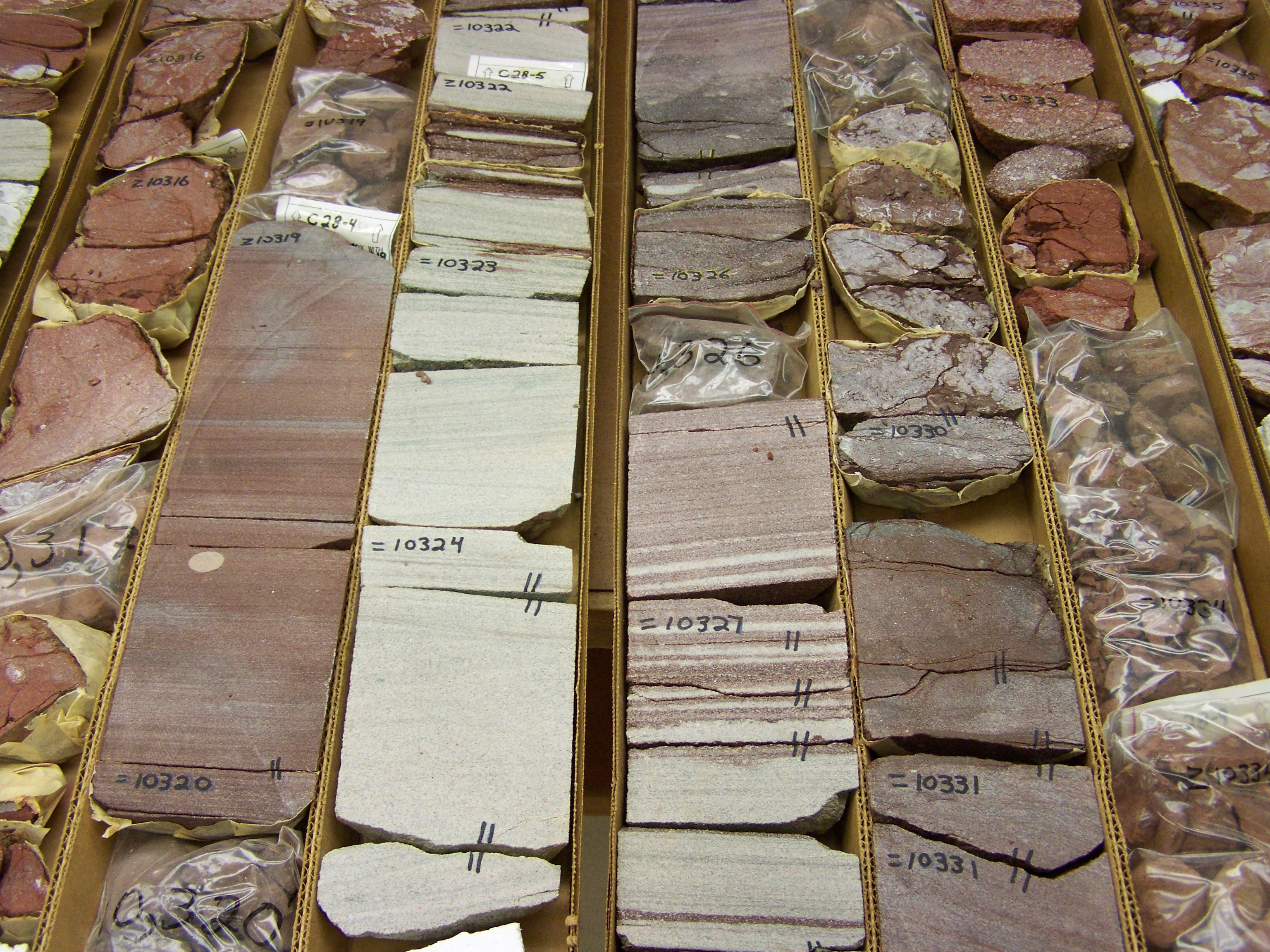 Slabbed section of the California Oil #1 Ferch drill core laid out in the Core Research Center exam room, Lakewood, CO.